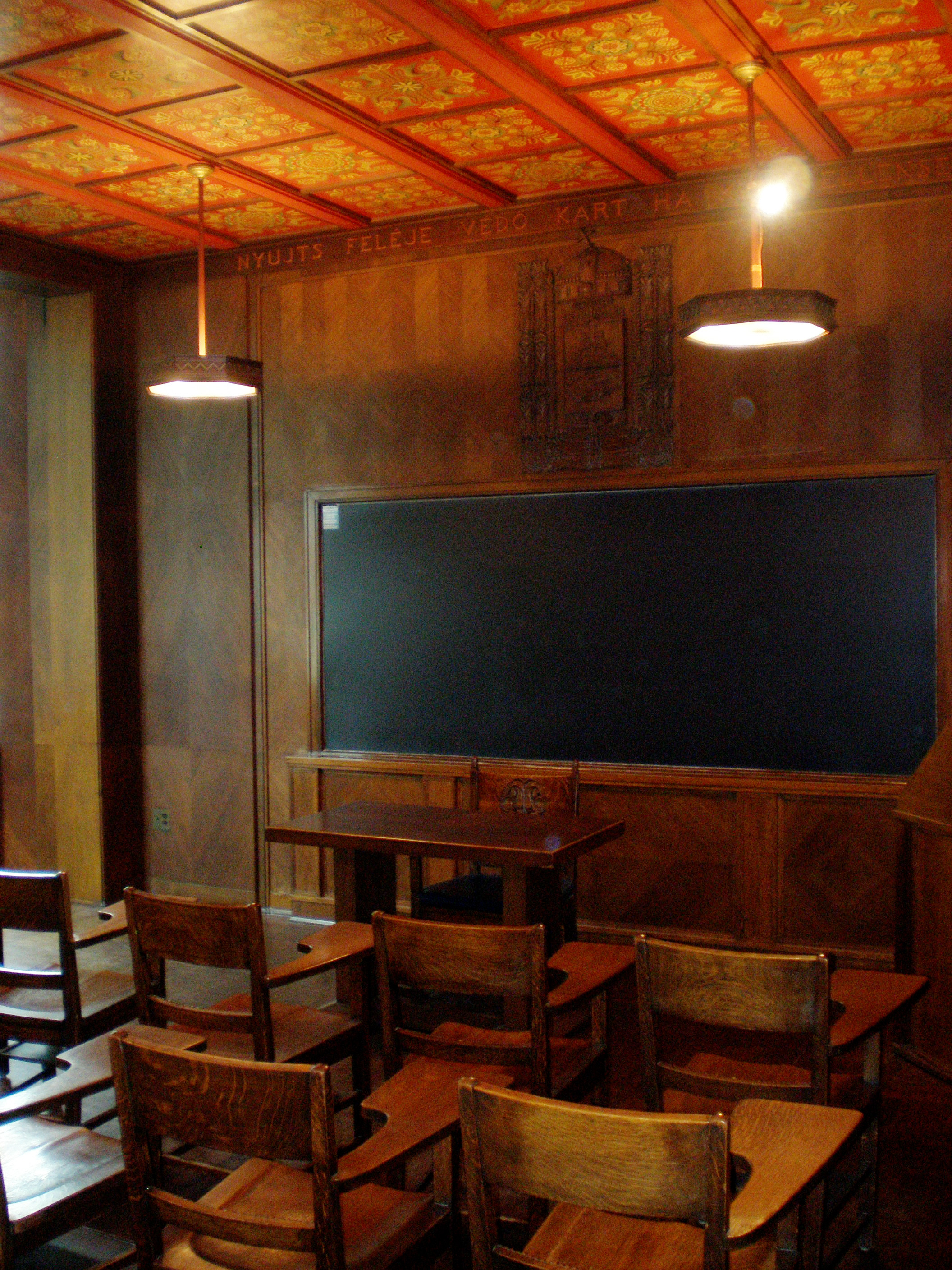 Hungarian Nationality Room in the Cathedral of Learning at the University of Pittsburgh